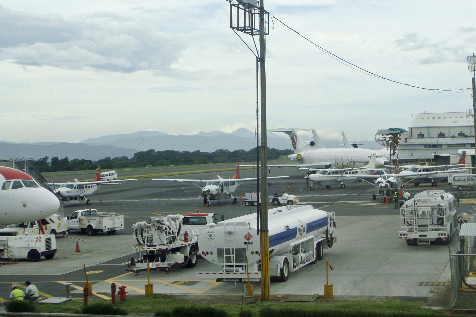 SANSA Regional operations area at Juan Santamaria International Airport (SJO), Costa Rica. Shown four SANSA aircrafts with the Grupo TACA new logo (2008).